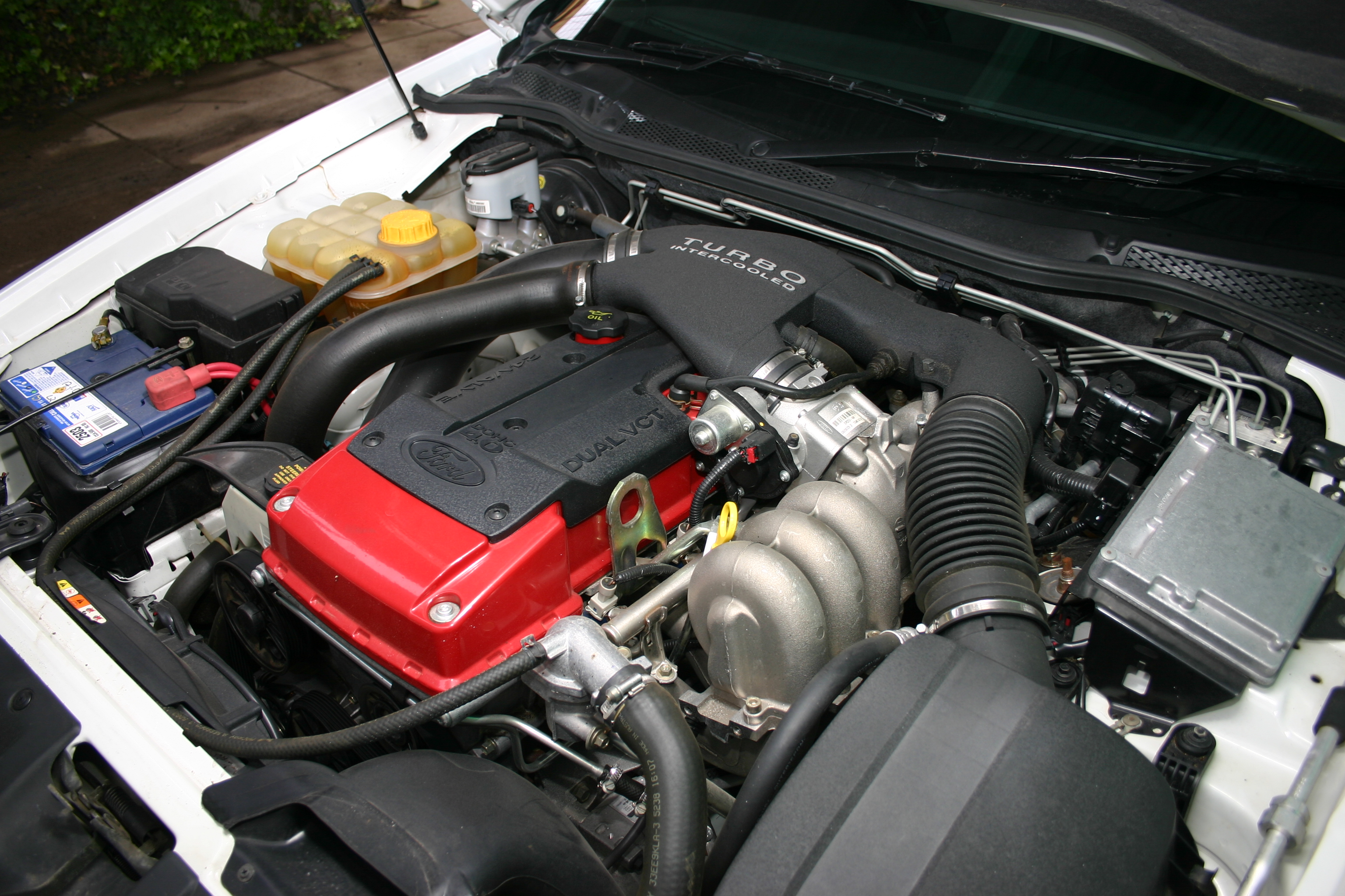 Ford Barra 245T engine, as installed in a Ford Falcon (BF) XR6 Turbo